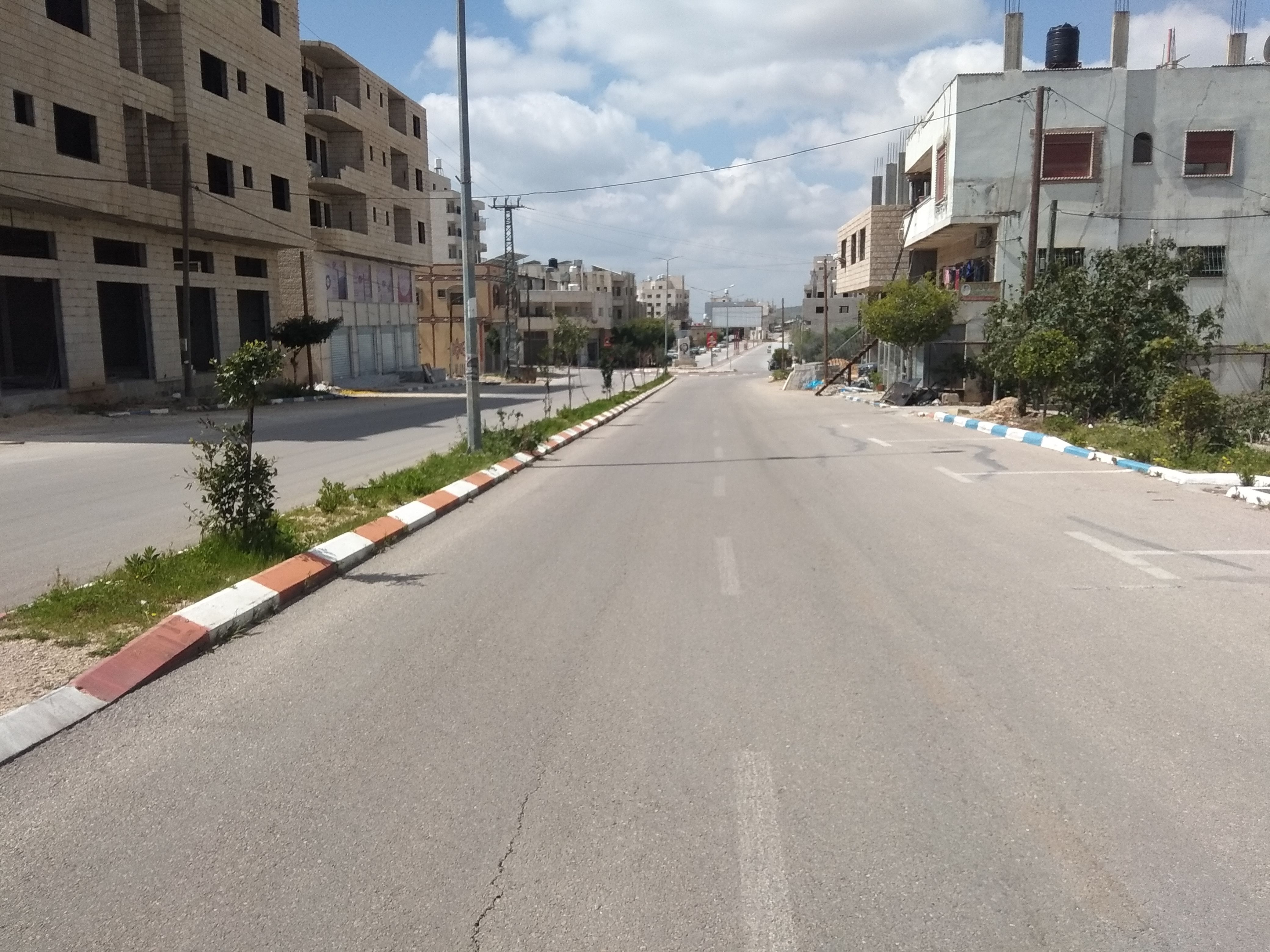 Al-Madīnah al-Munawwarah Street in the city of Salfit on March 25, 2020, is empty of people, in implementation of the mandatory quarantine decision due to the Corona virus pandemic in Palestine 2020